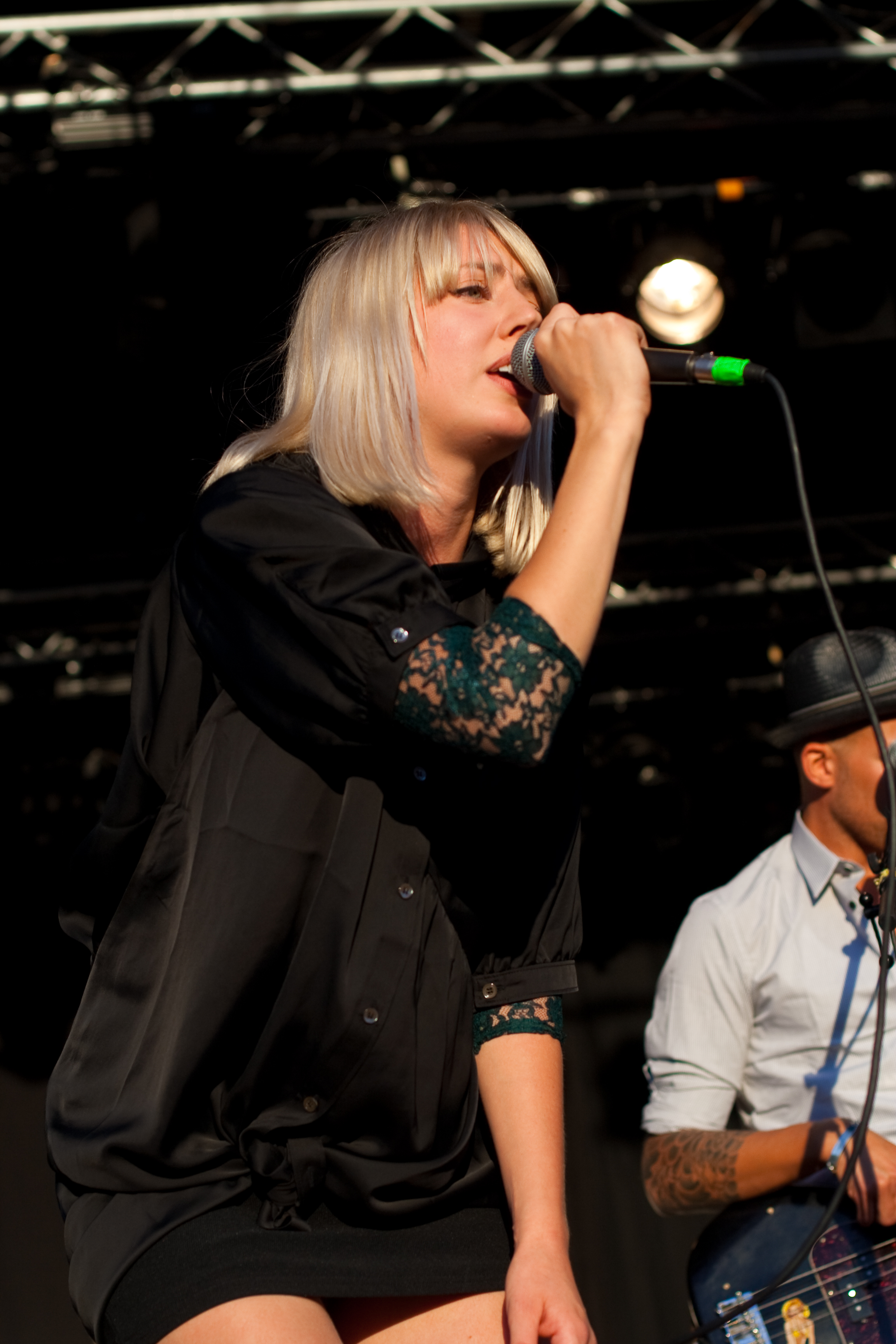 Veronica Maggio at Trästockfestivalen in Skellefteå, July 2009.